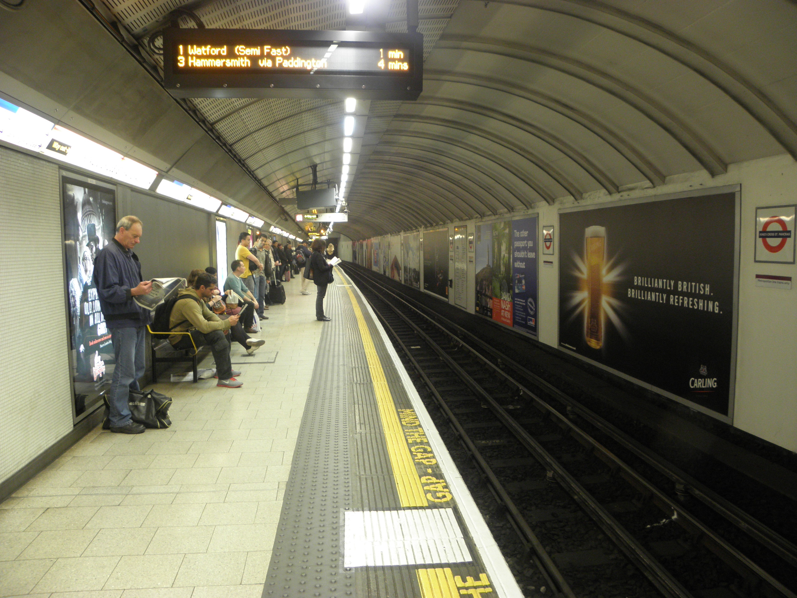 King's Cross St. Pancras station Circle/Hammersmith & City/Metropolitan line anticlockwise (westbound) platform looking clockwise (east)